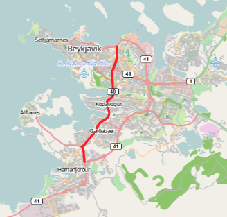 The red line highlights road number 40 in Iceland. This map may be incomplete, and may contain errors.